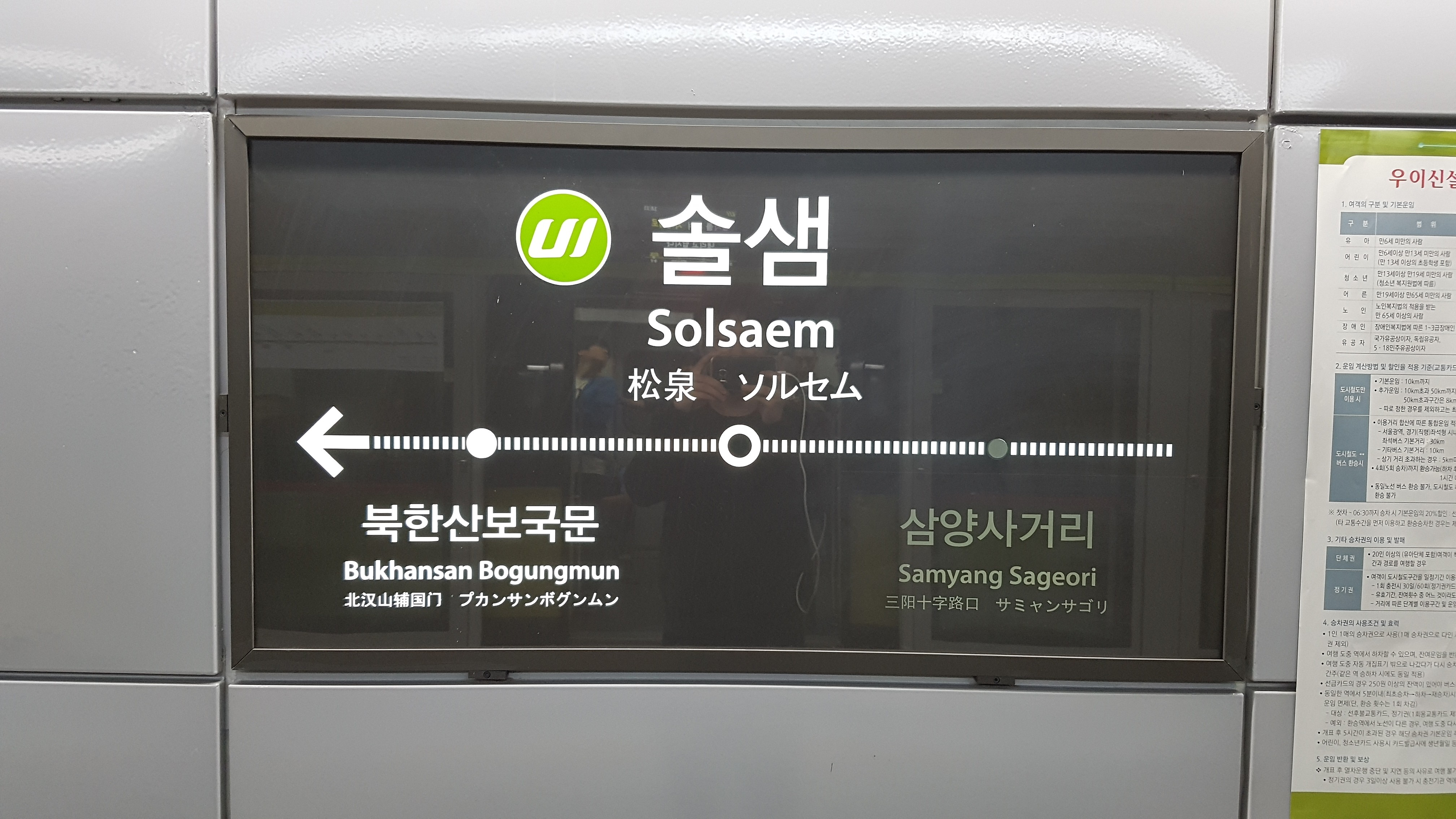 A scenery of Ui LRT (Seoul) Solsaem Station